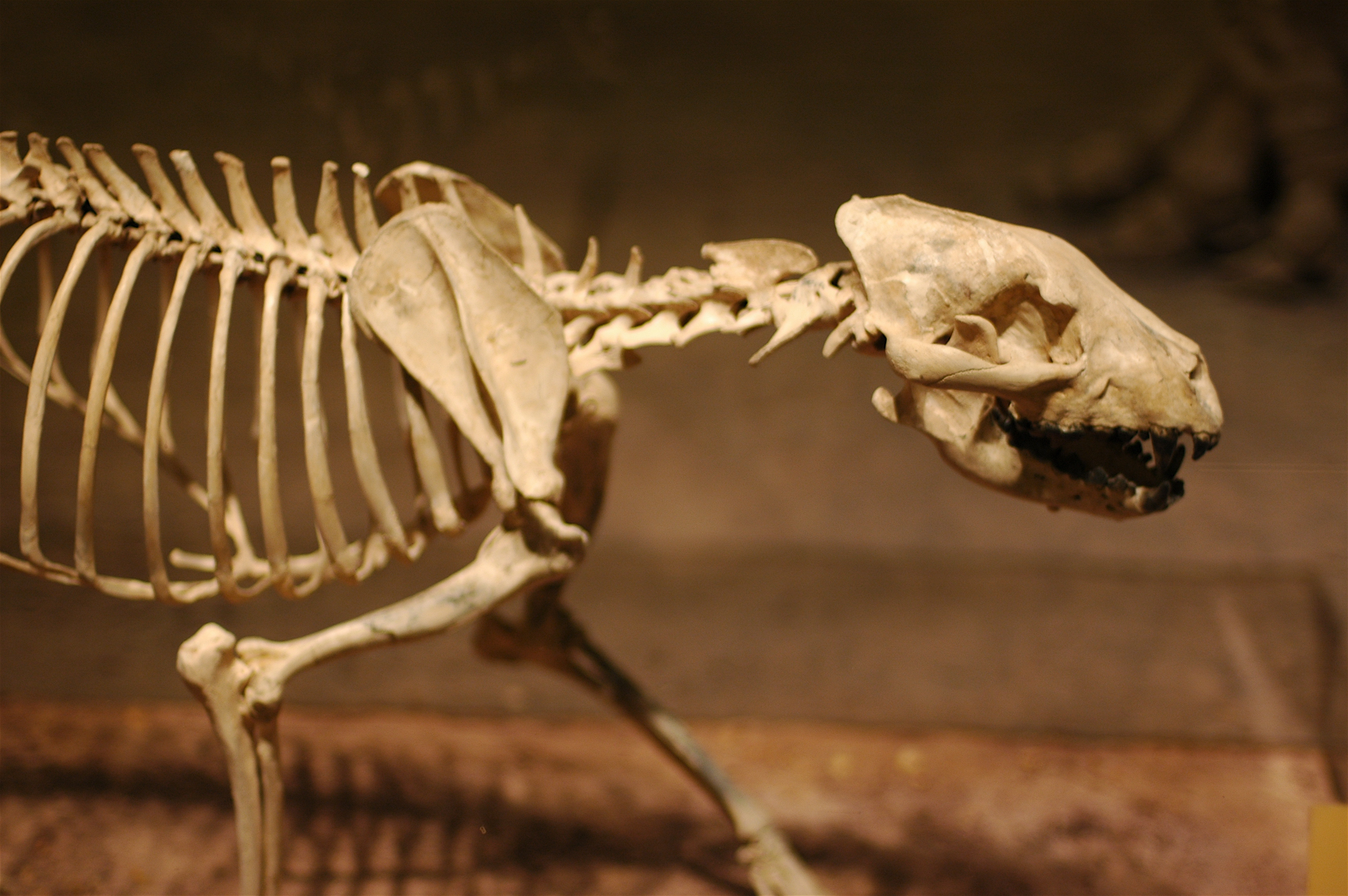 Skeleton of Aelurodon stirtoni at the Smithsonian National Museum of Natural History